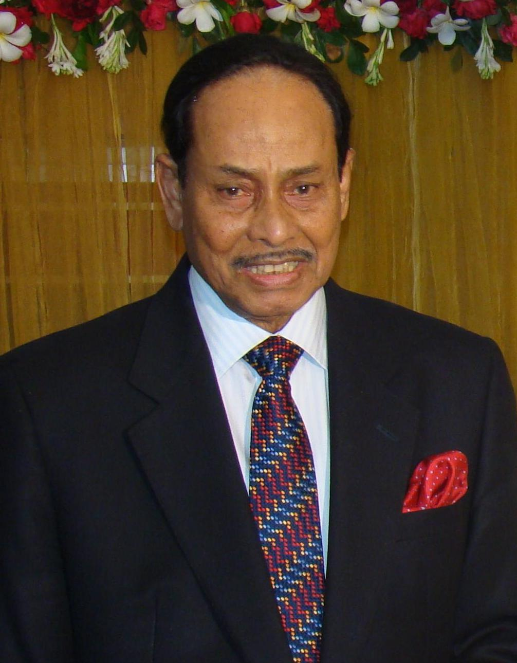 Bangladeshi former President Hussain Muhammad Ershad at a wedding ceremony in 2012.